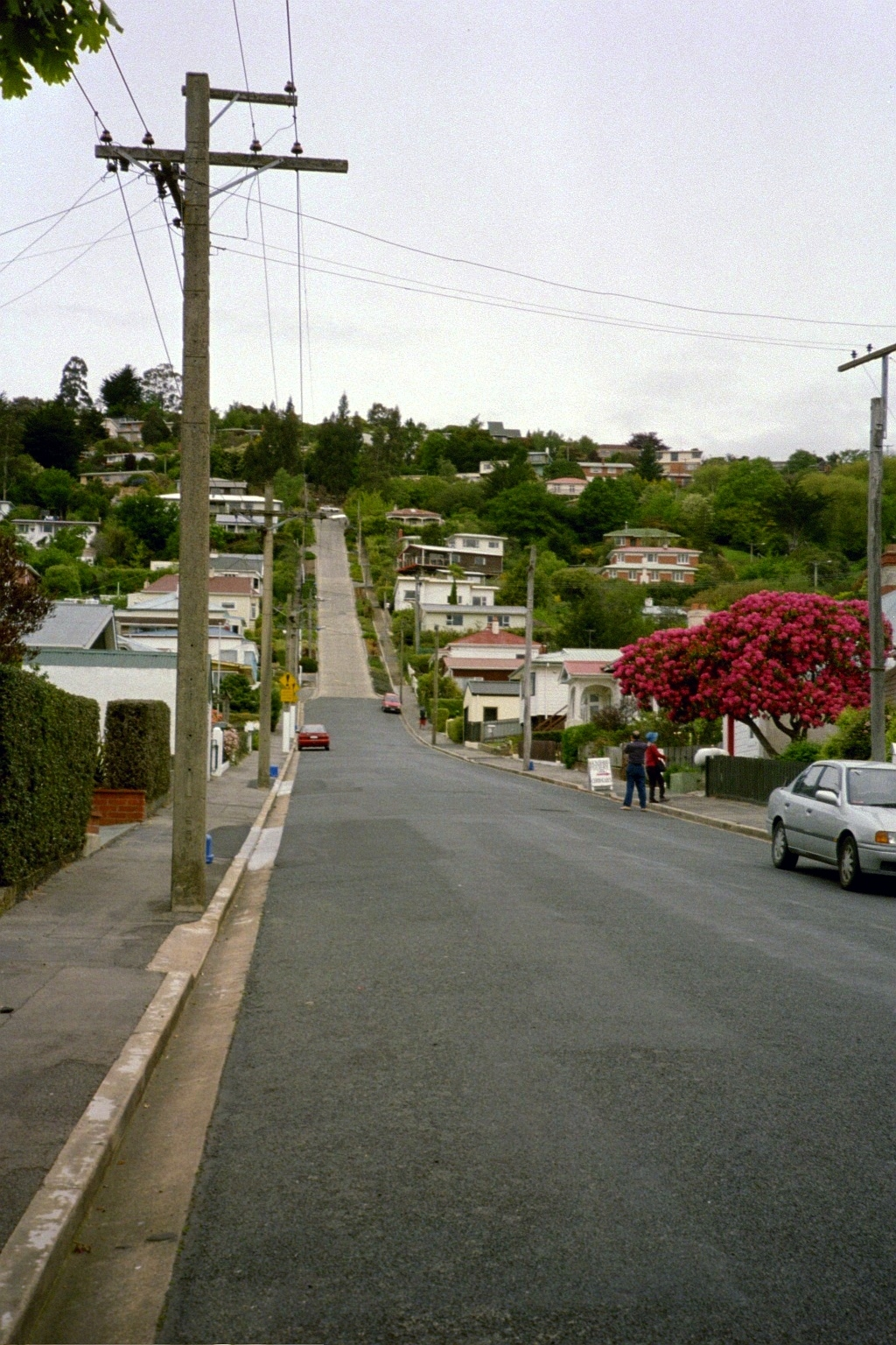 Baldwin Street in Dunedin, New Zealand.